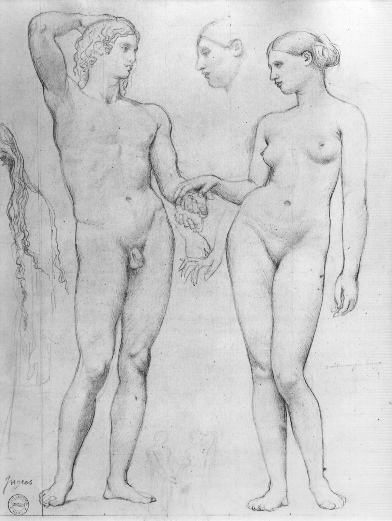 L'Âge d'Or Study (1862), pencil, Jean Auguste Dominique Ingres, Fogg Museum, Cambridge, Massachusetts.